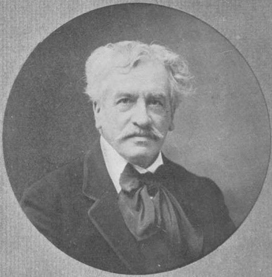 name Prof. Mr. G. A. VAN HAMEL.. political affiliationLiberal Union